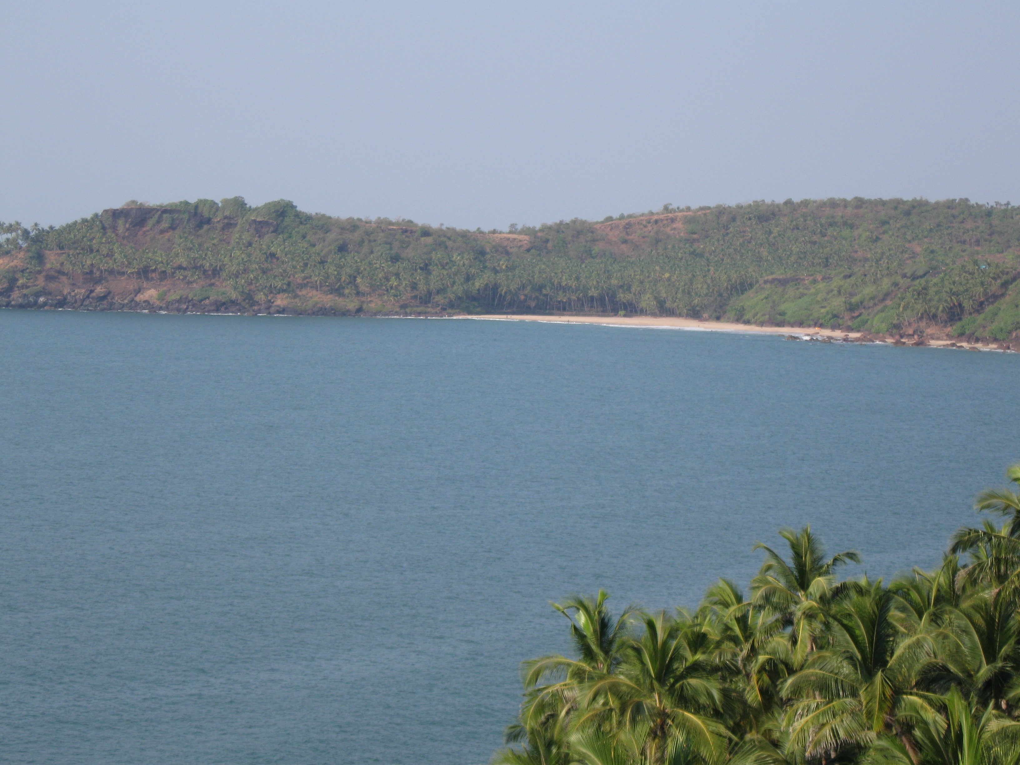 View from Cabo de Rama fort in Goa